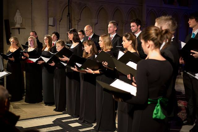 NDV in France